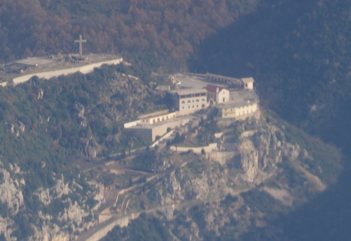 Monastery of Shna Ndout Monastery in Laç, Albania